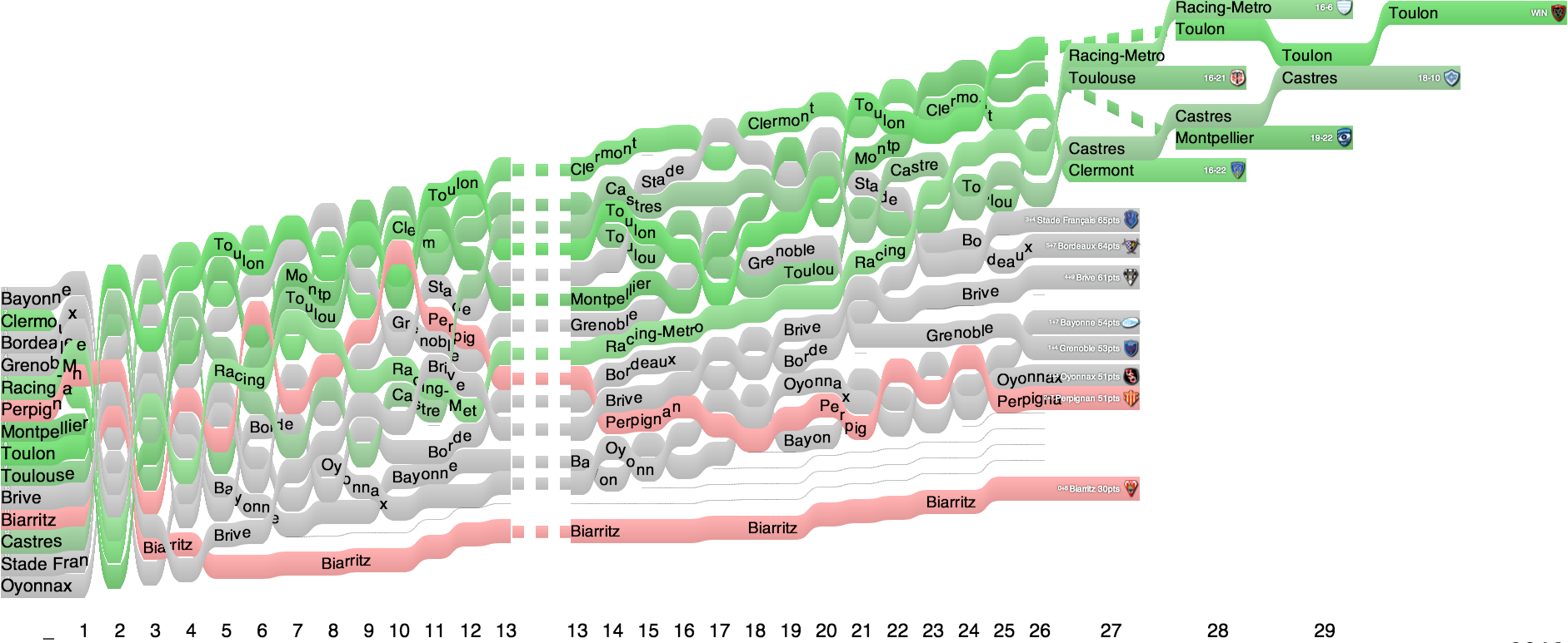 GapChart for the Top 14 – championship of the French National Rugby League –, 2013–2014.